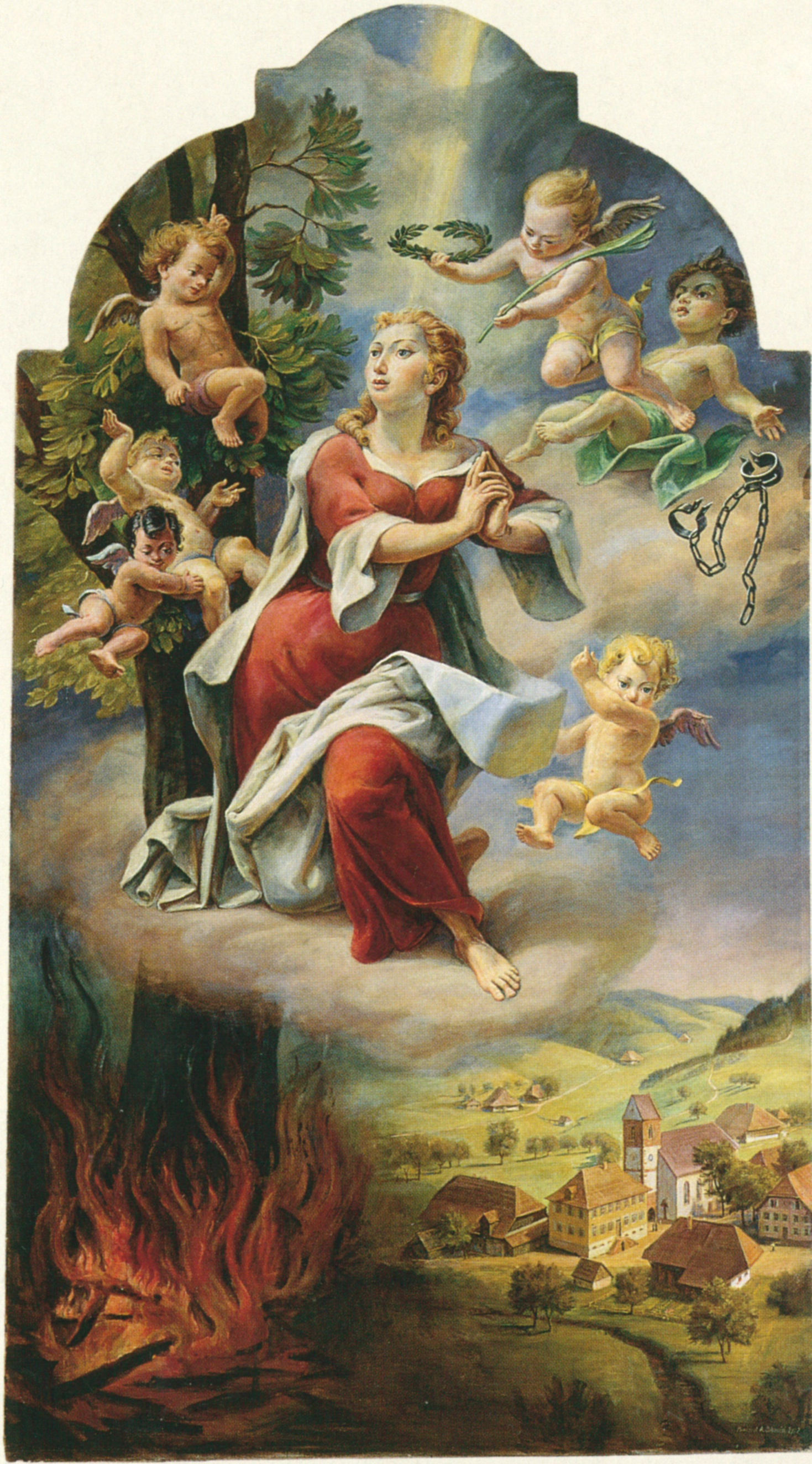 St. Afra, painting by Manfred A. Schmid, in St. Afra church, Mühlenbach, Baden-Württemberg